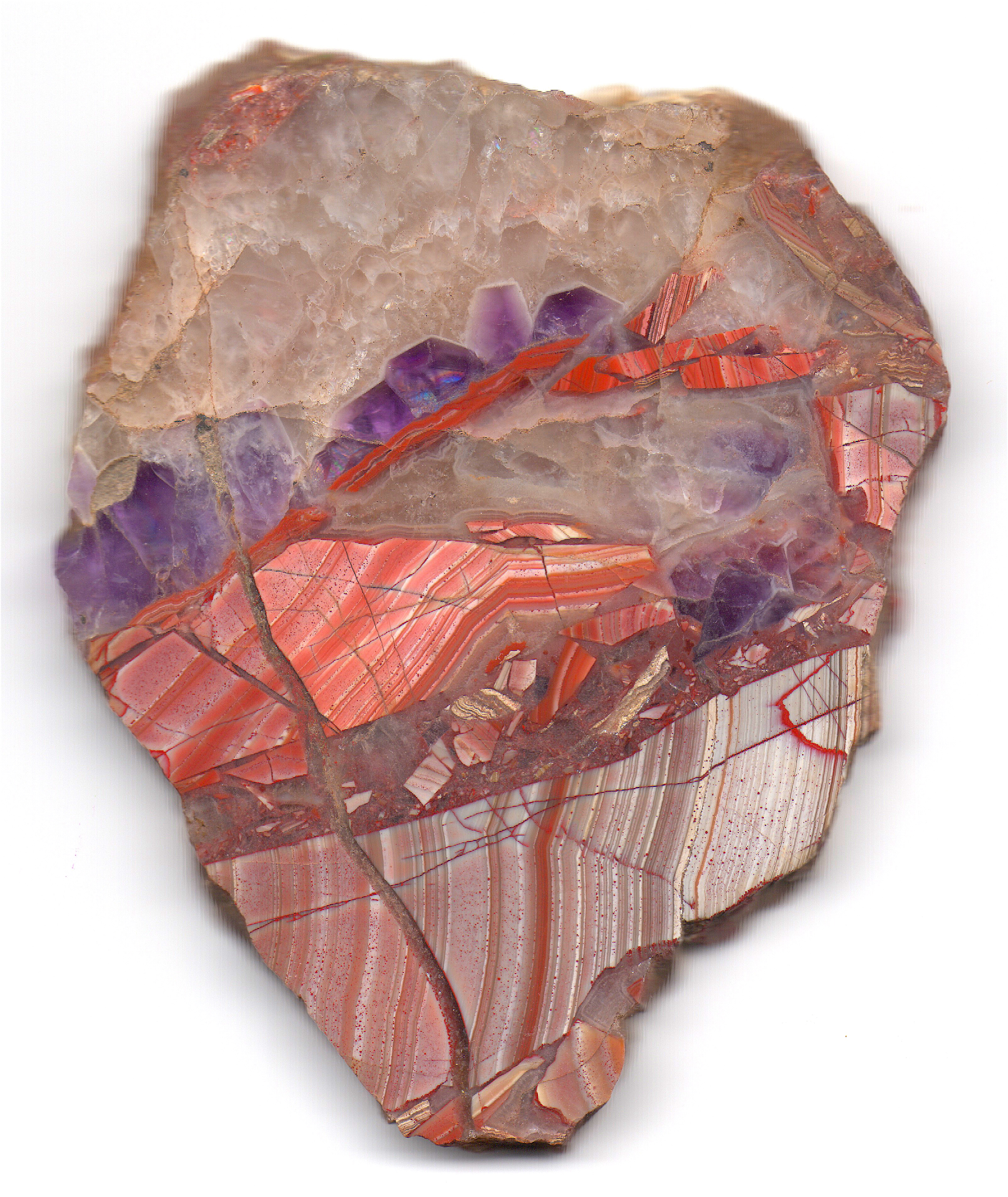 A slice of silicates of my collection: agate, amethyst, quartz from Baia-Sprie, Maramureș